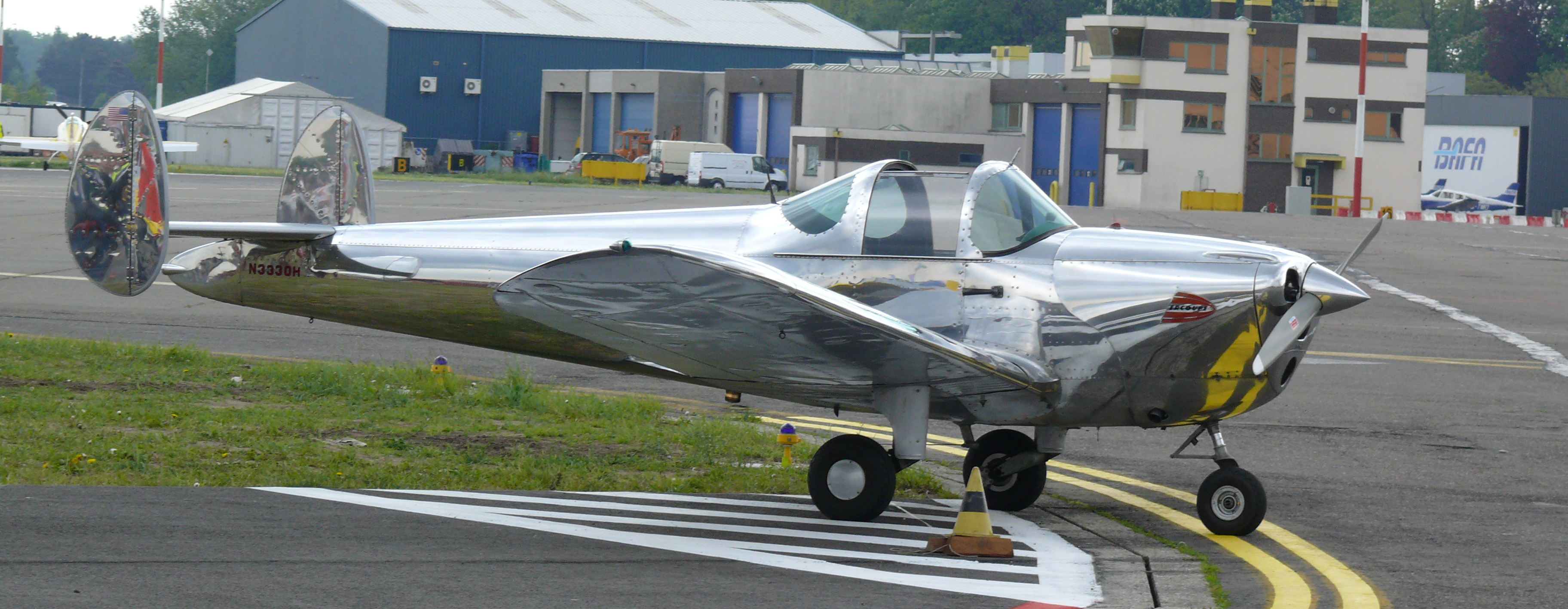 1946 Erco 415CD Ercoupe (N3330H) during the Stampe Fly-In 2010. The ERCO Ercoupe is a low wing monoplane first manufactured by the Engineering and Research Corporation (ERCO) shortly before World War II, production continued after WWII by several other manufacturers until 1967.